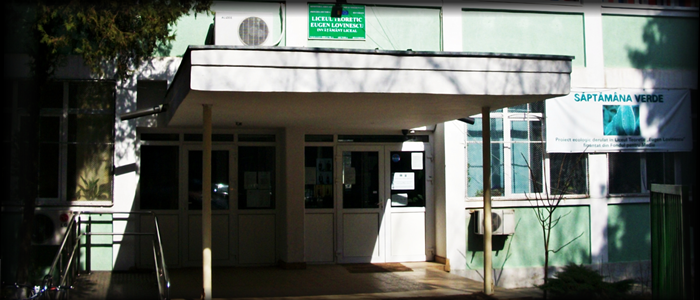 Eugen Lovinescu High School